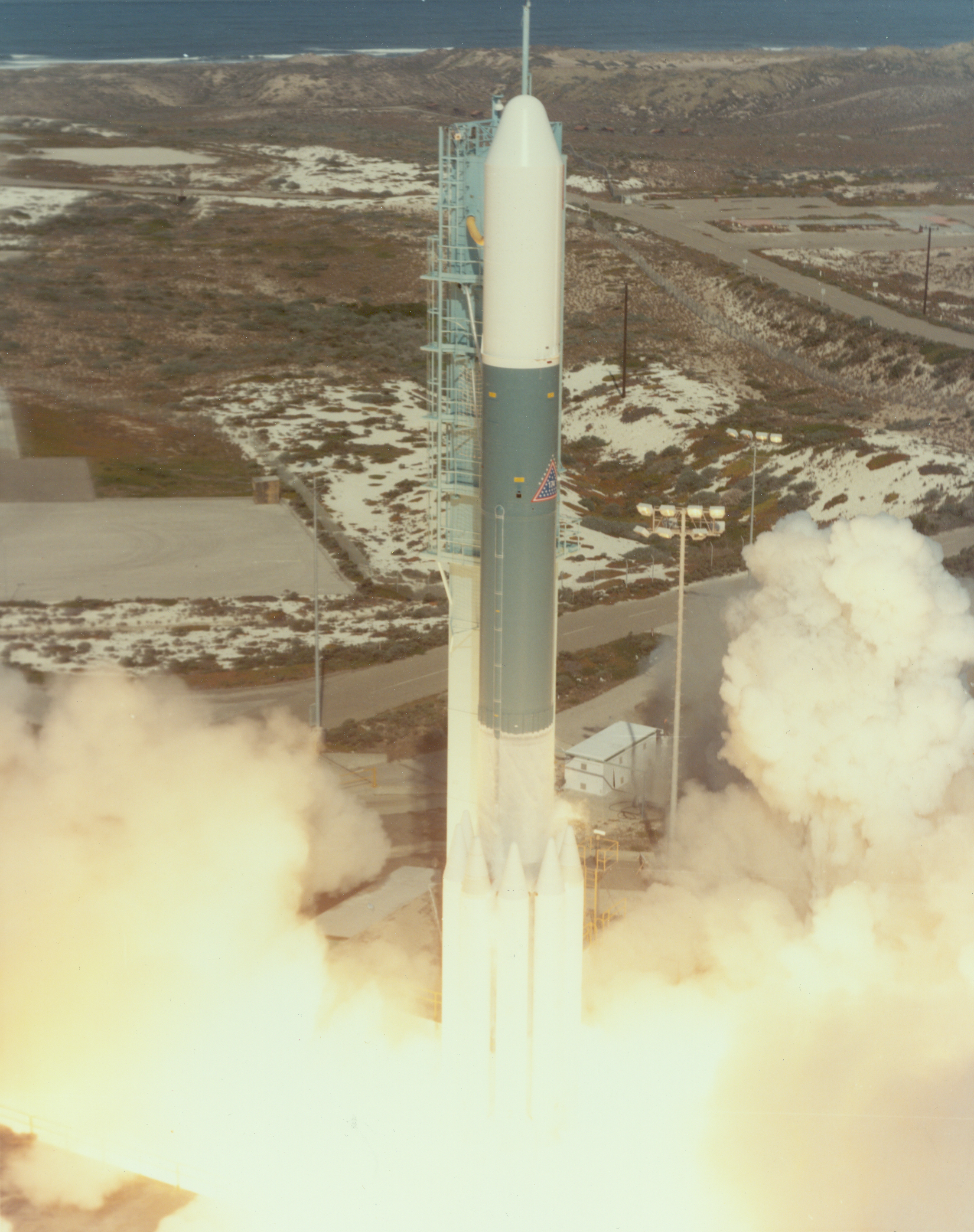 The Delta launch vehicle family started development in 1959. TheDelta was composed of parts from the Thor, an intermediate-rangeballistic missile, as its first stage, and the Vanguard as its second. The first Delta was launched from Cape Canaveral on May13, 1960 and was powerful enough to deliver a 100-poundspacecraft into geostationary transfer orbit. Delta has beenused to launch civil, commercial, and military satellites intoorbit. Kevin Forsyth remarks that "Delta is one of the most enduring members of the original family of US space launchvehicles and has long been known as 'the workhorse of space.'"For more information about Delta, please see Chapter 3 in Roger Launius and Dennis Jenkins' book To Reach the High Frontier published by The University Press of Kentucky in 2002.